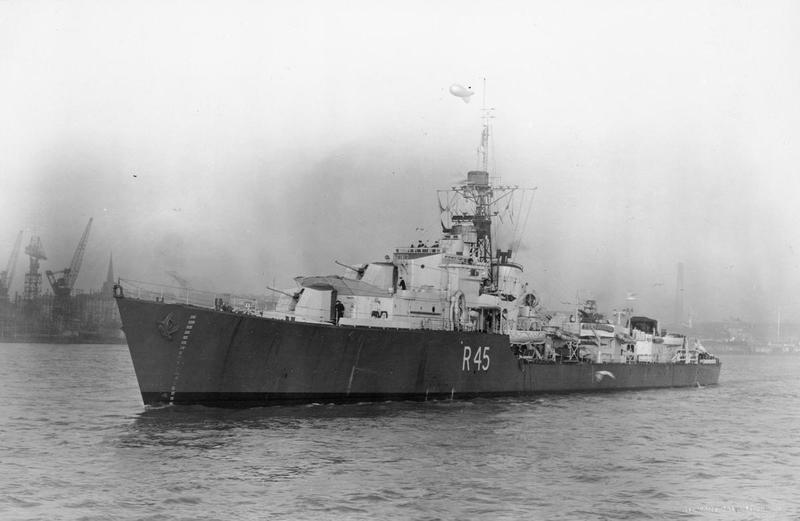 HMS Tenacious (R45) underway on the River Mersey, c1942 (IWM)